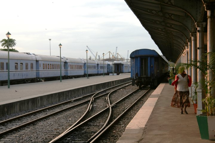 Train at the Train Station, photo by Sara Vannini